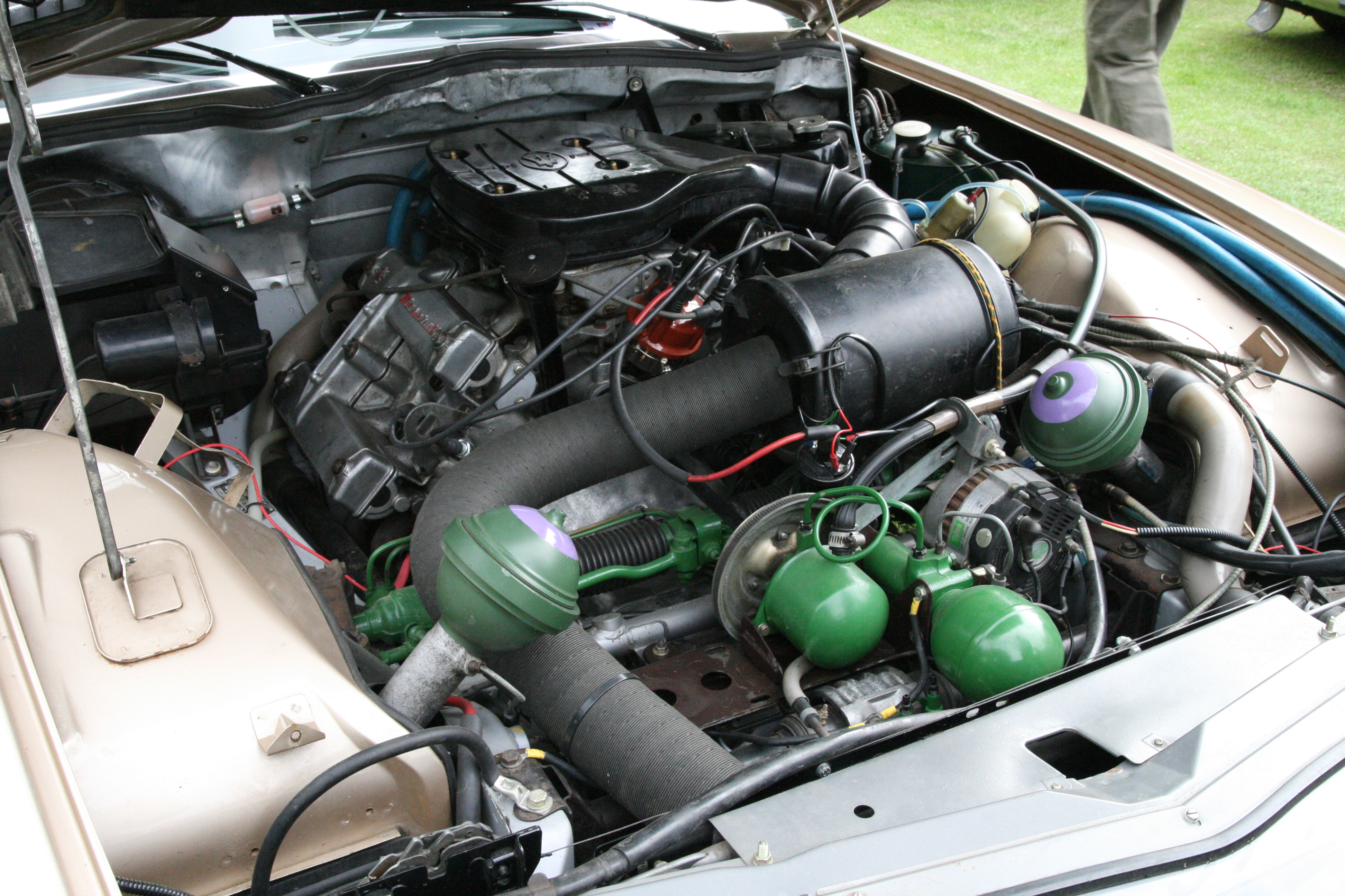 The Maserati-based V6 engine found in a Citroën SM, parked at the 2008 Nostalgia Festival auto show in Ronneby, Sweden.